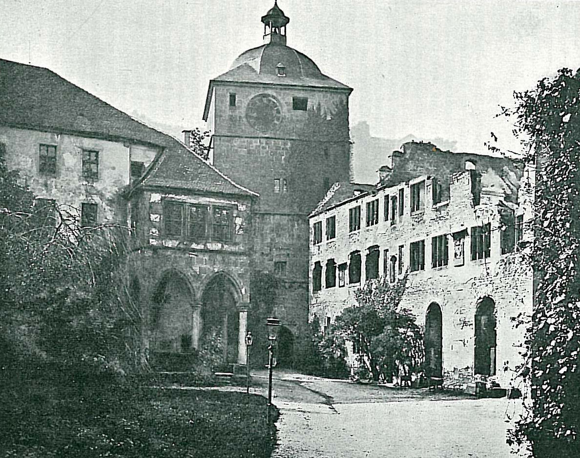 historical view of Heidelberg